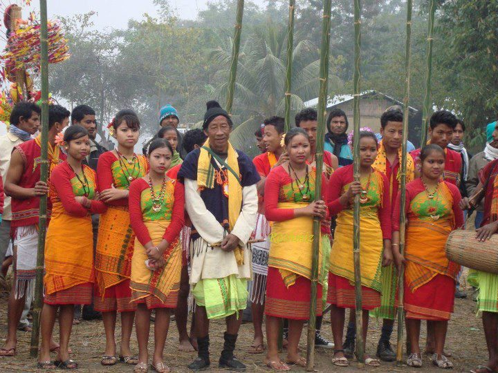 Tiwa tribe dance troupe